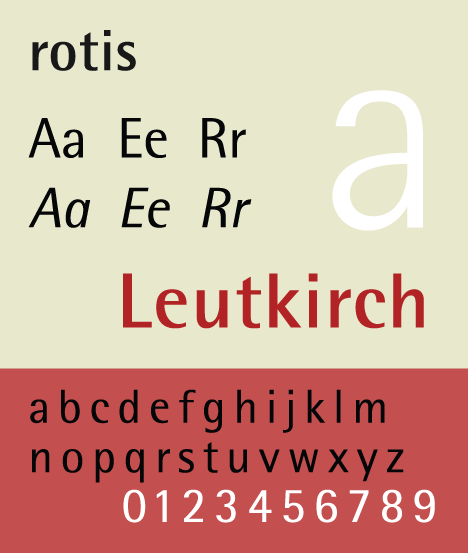 Specimen of the typeface rotis, Jim Hood